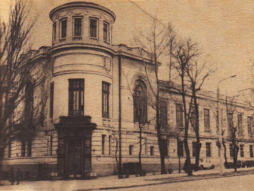 State Bank, Mykolaiv